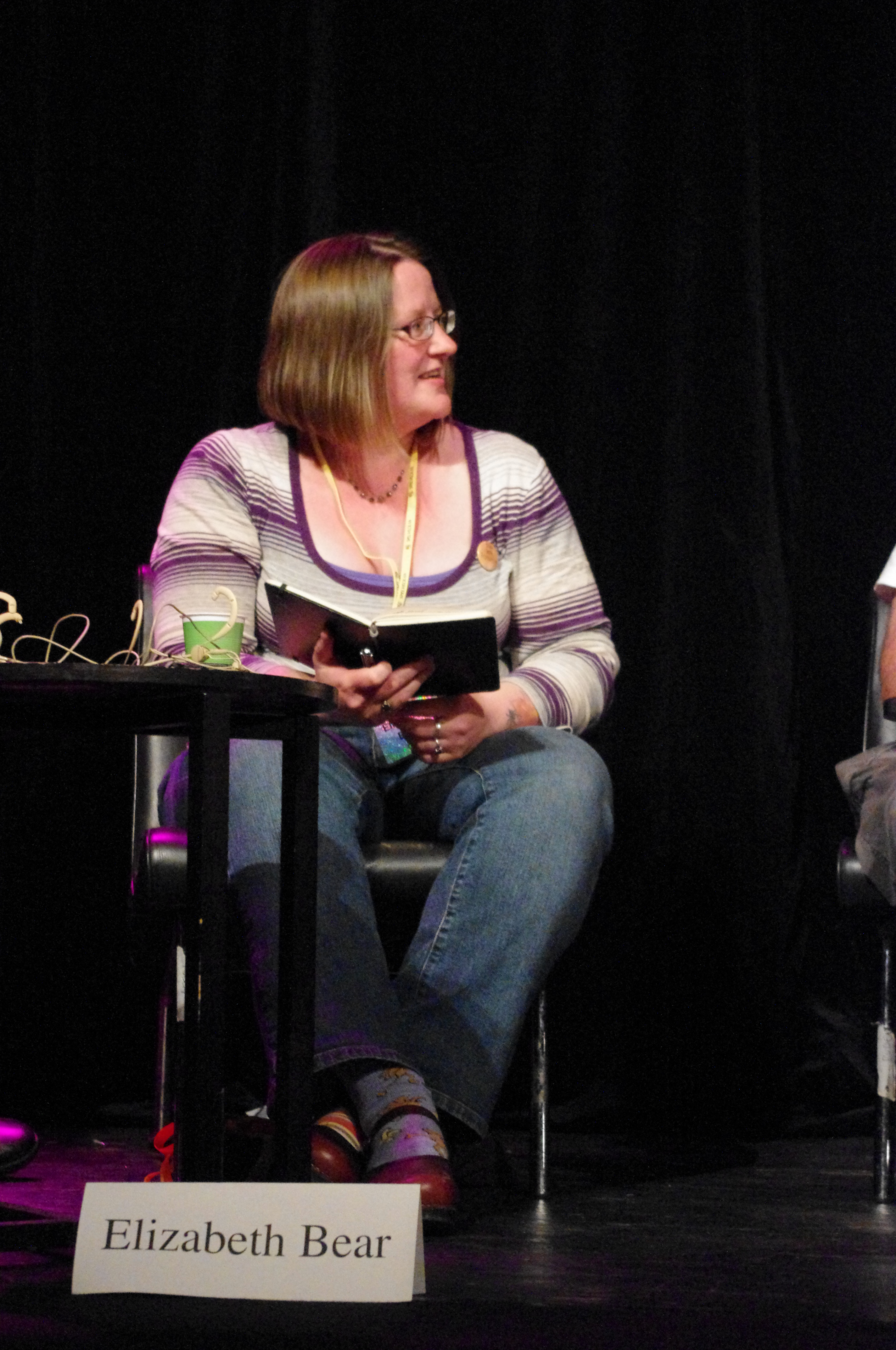 Elizabeth Bear at Eurocon in Stockholm 2011.